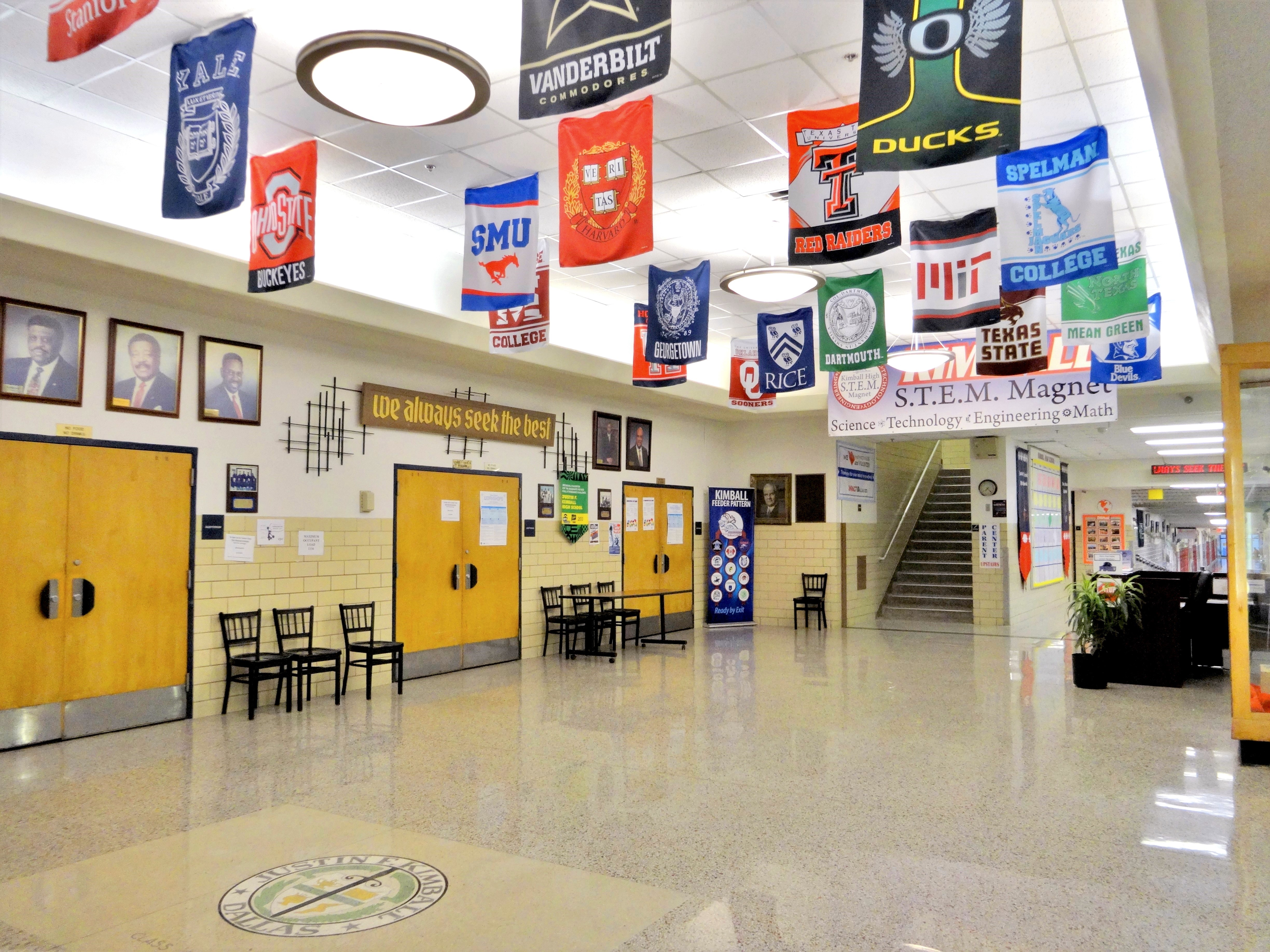 The inside lobby of Justin F. Kimball High School in Dallas, TX.